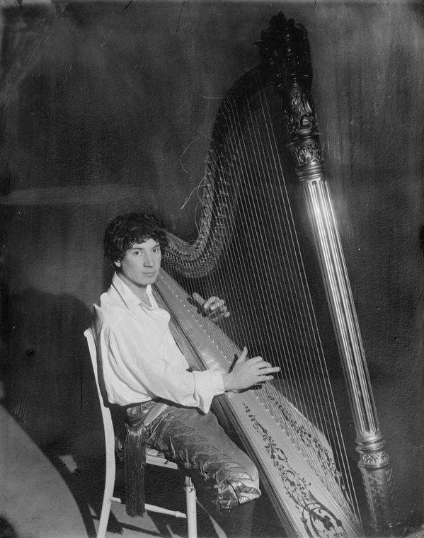 Photograph of Harpo Marx playing the harpo. Vandamm Studio. Courtesy of the New York Public Library Digital Collection.